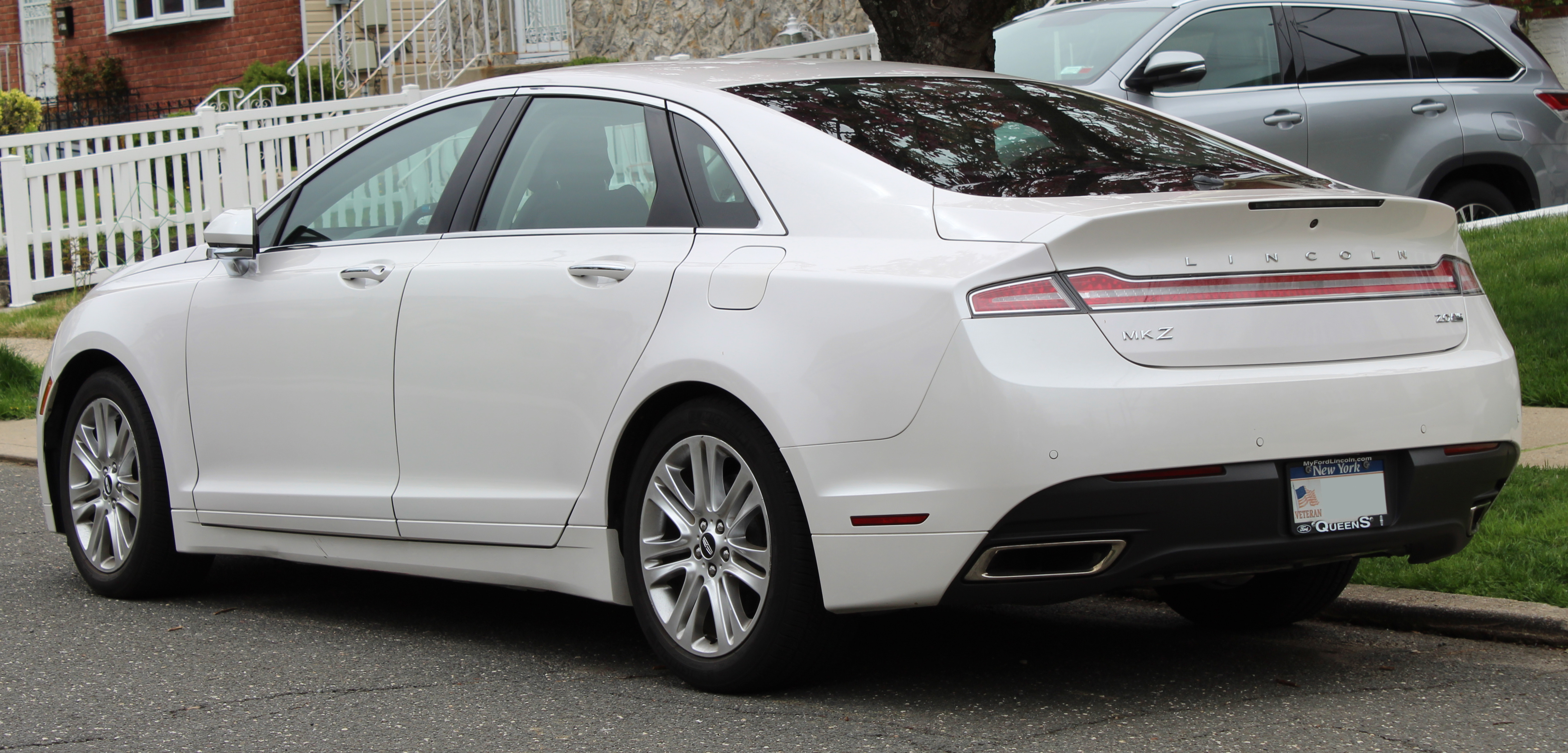 A 2016 Lincoln MKZ photographed in Bayside, Queens, New York, USA